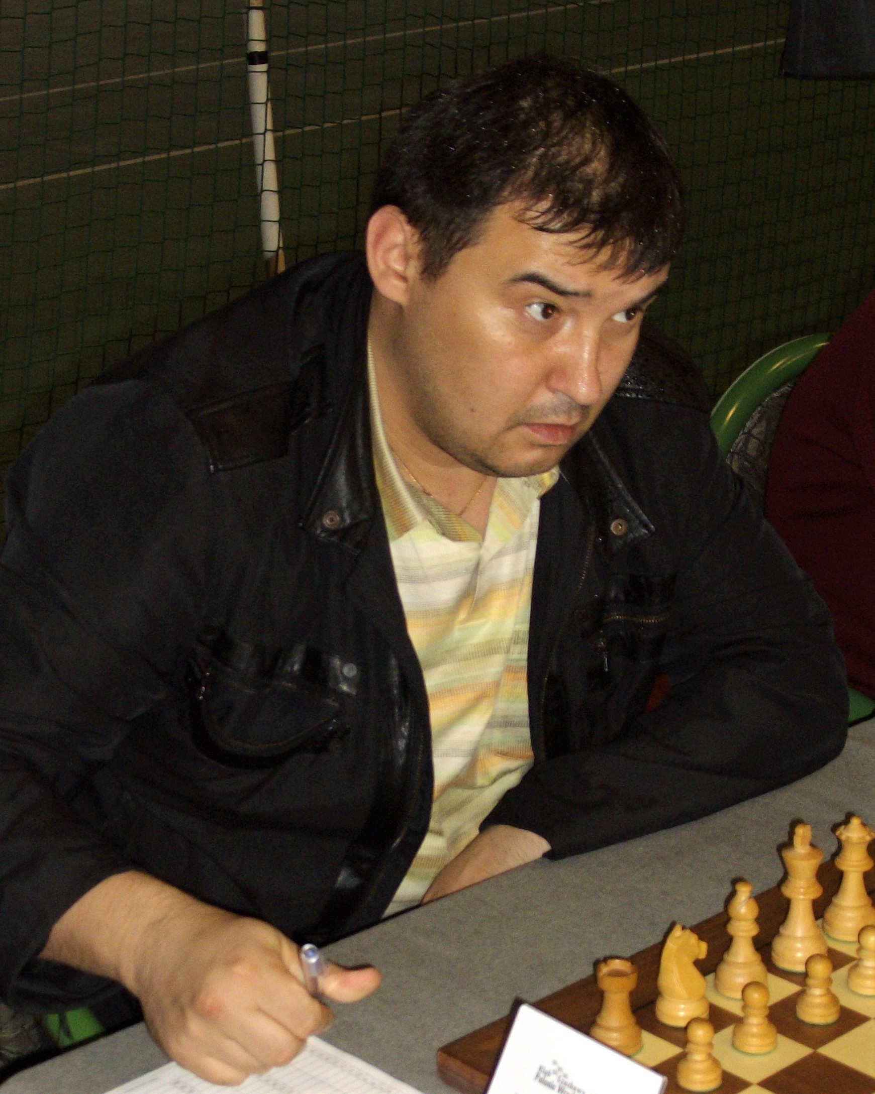 GM Aleksej Aleksandrov Belarus, IV International Chess Tournament "KS Polonia Wrocław" 2009